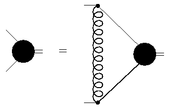 The Bethe-Salpeter equation in Ladder approximation